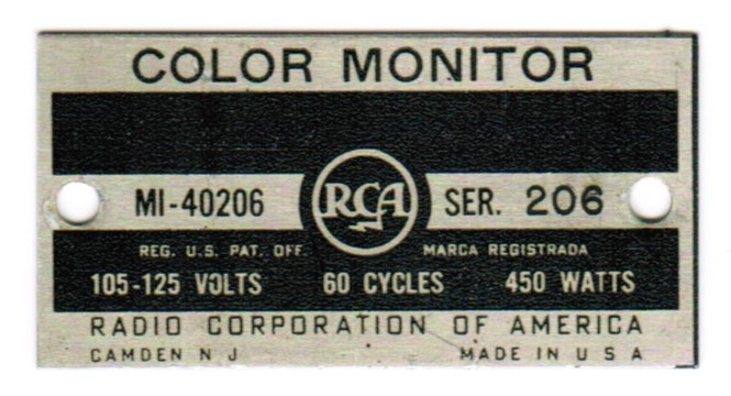 The RCA MI-40206 color monitor was the prototype for color television in the 20th century.